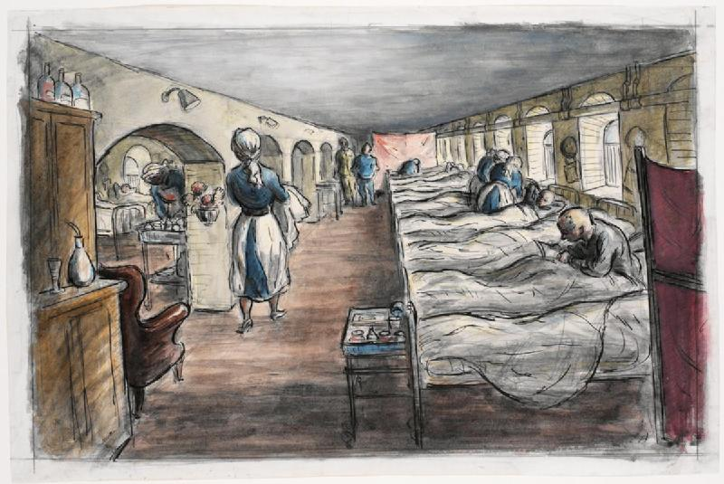 Royal Herbert Hospital, Woolwich- a Basement Ward image: A view down a ward. All the beds are full. About half way down the ward two nurses are tending to a patient. In the foreground a nurse walks away from the viewer holding some laundry while another is arranging a medicine trolley.